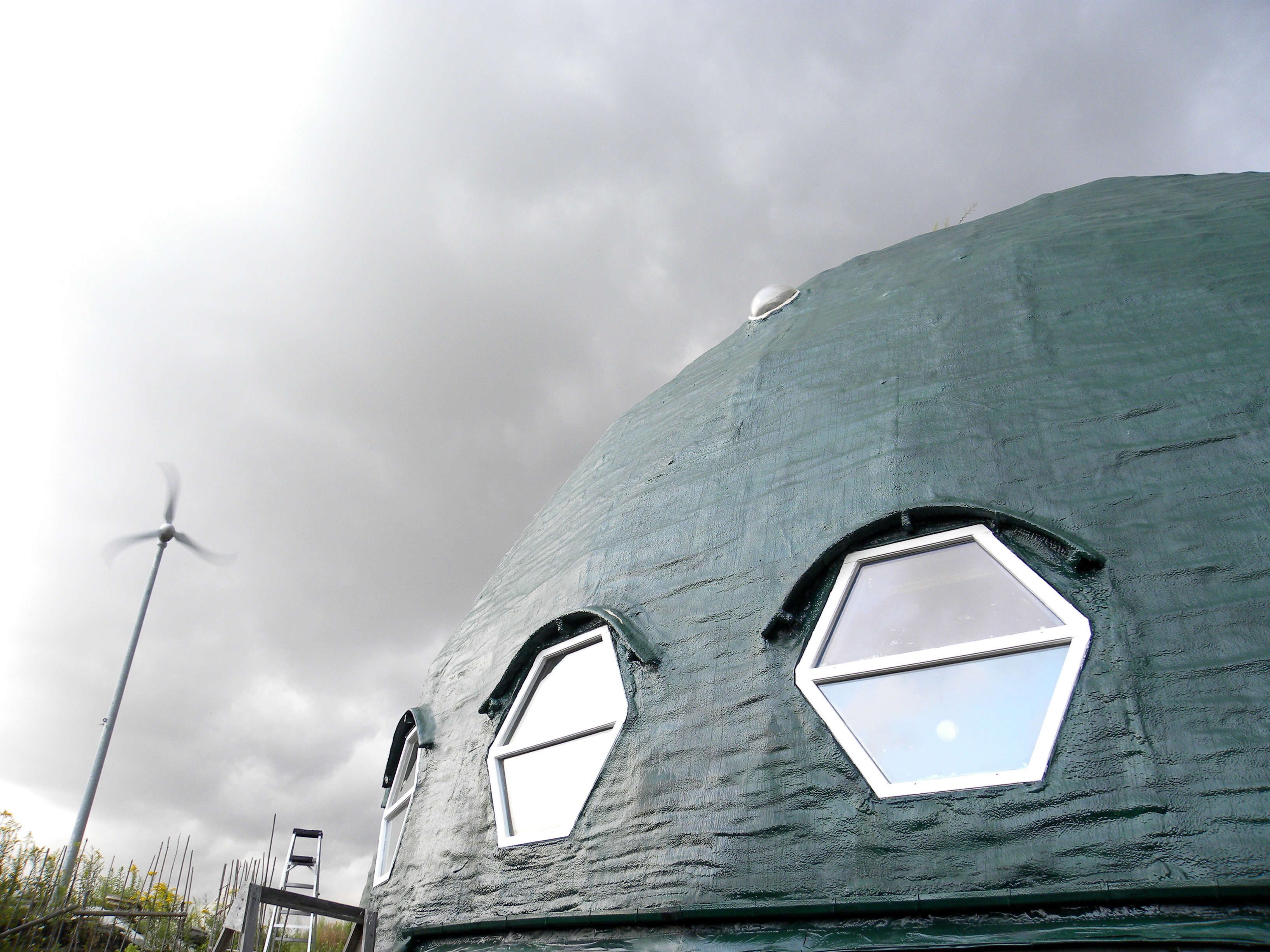 Long Island Green Dome located at 1489 Sound Avenue, Baiting Hollow, NY, U.S.A.